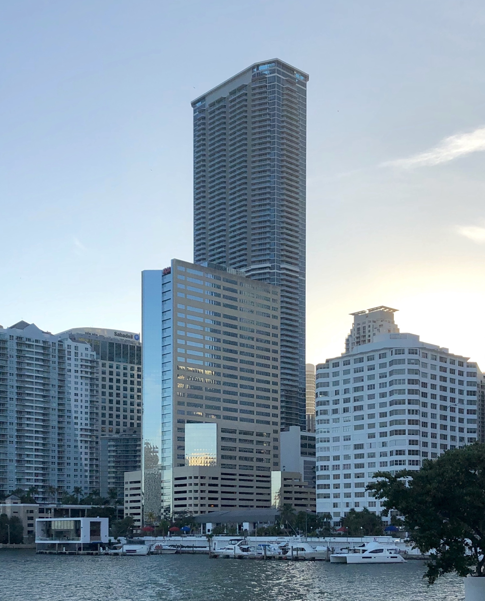 View of the Panorama Tower in Miami, February 2020. Photo by Chris6d